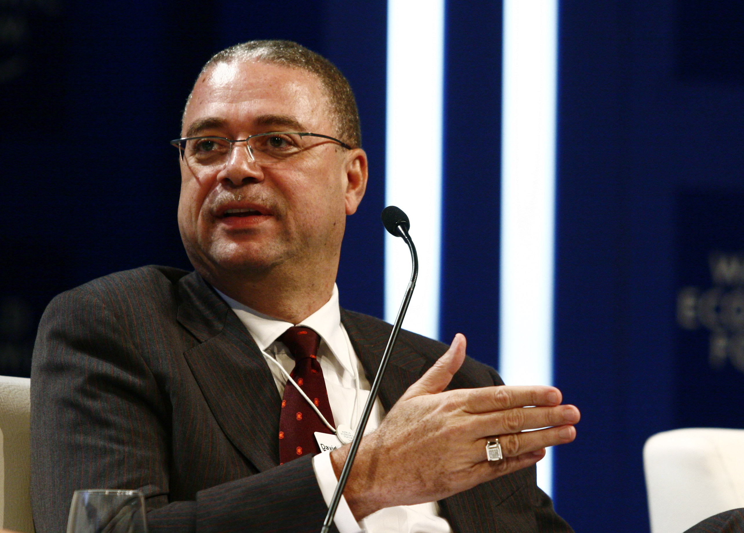 CARTAGENA/COLOMBIA, 8 APRIL 2010 - David John Howard Thompson, Prime Minister of Barbados, in the TV Debate New Horizons for Haiti, at the World Economic Forum on Latin America 2010 in Cartagena Convention Center from 6 - 8 April.